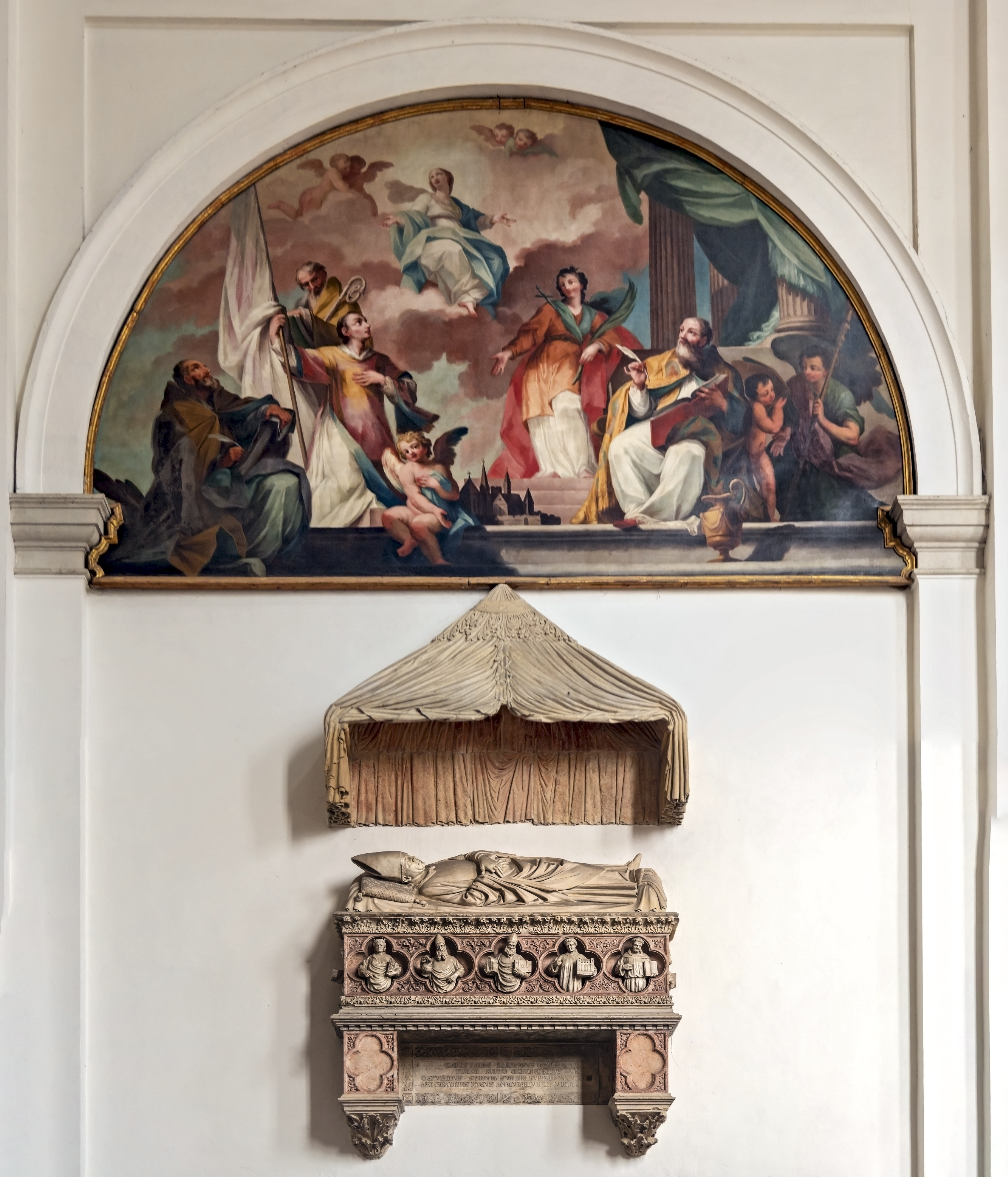 On the left wall a tomb of 1420 with the recumbent statue of Pileo da Prata, bishop of Padua. It was created by Pierpaolo dalle Masegne. Above a canvas representing the patrons of the city of Padua.